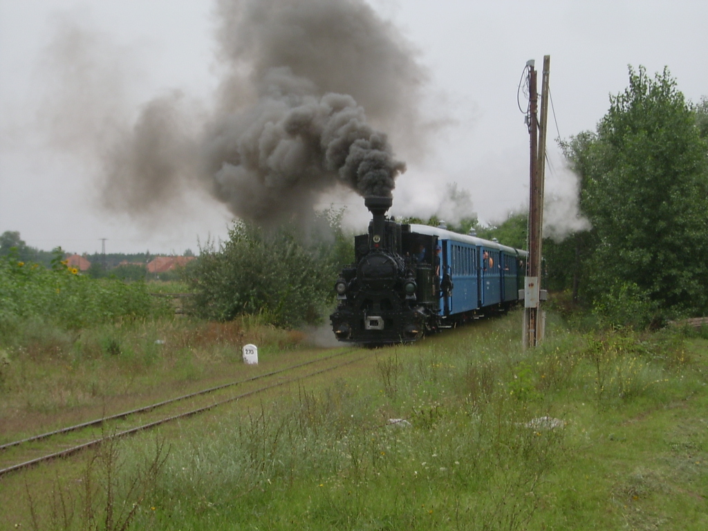 Train in the Narrow-Gauge Railway of Kecskemét.